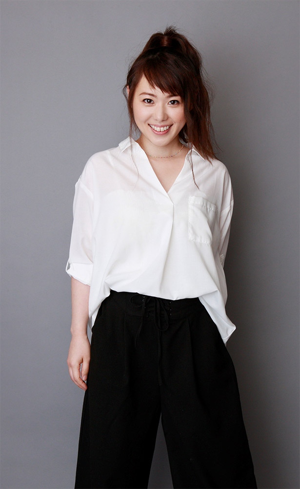 She began jazz dance, drum, piano and jazz dance from her childhood and began hip hop dance from the age of fifteen. Began activities as a singer-songwriter from 10 years old. Provides recording support for drums, percussion, chorus, etc. Active in providing music, directing, modeling, dancing and actors.